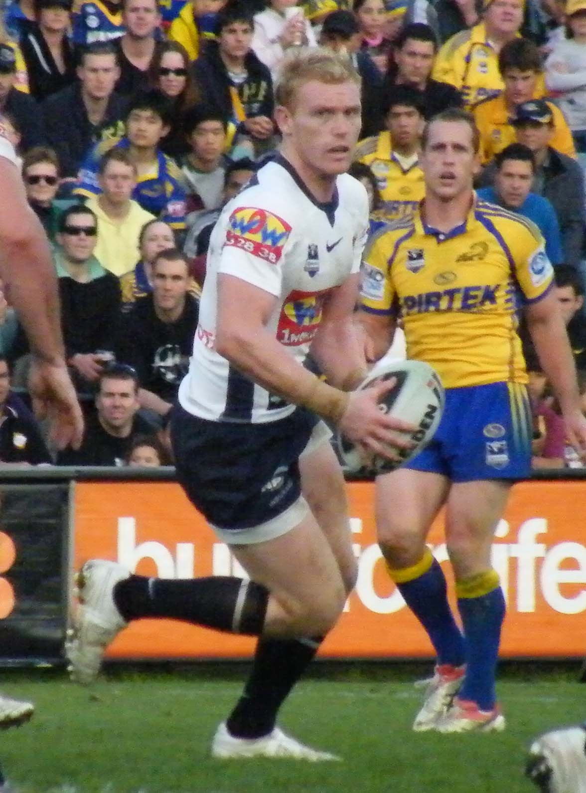 Peter Wallace of the Brisbane Bronco's RLFC